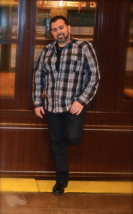 musicain